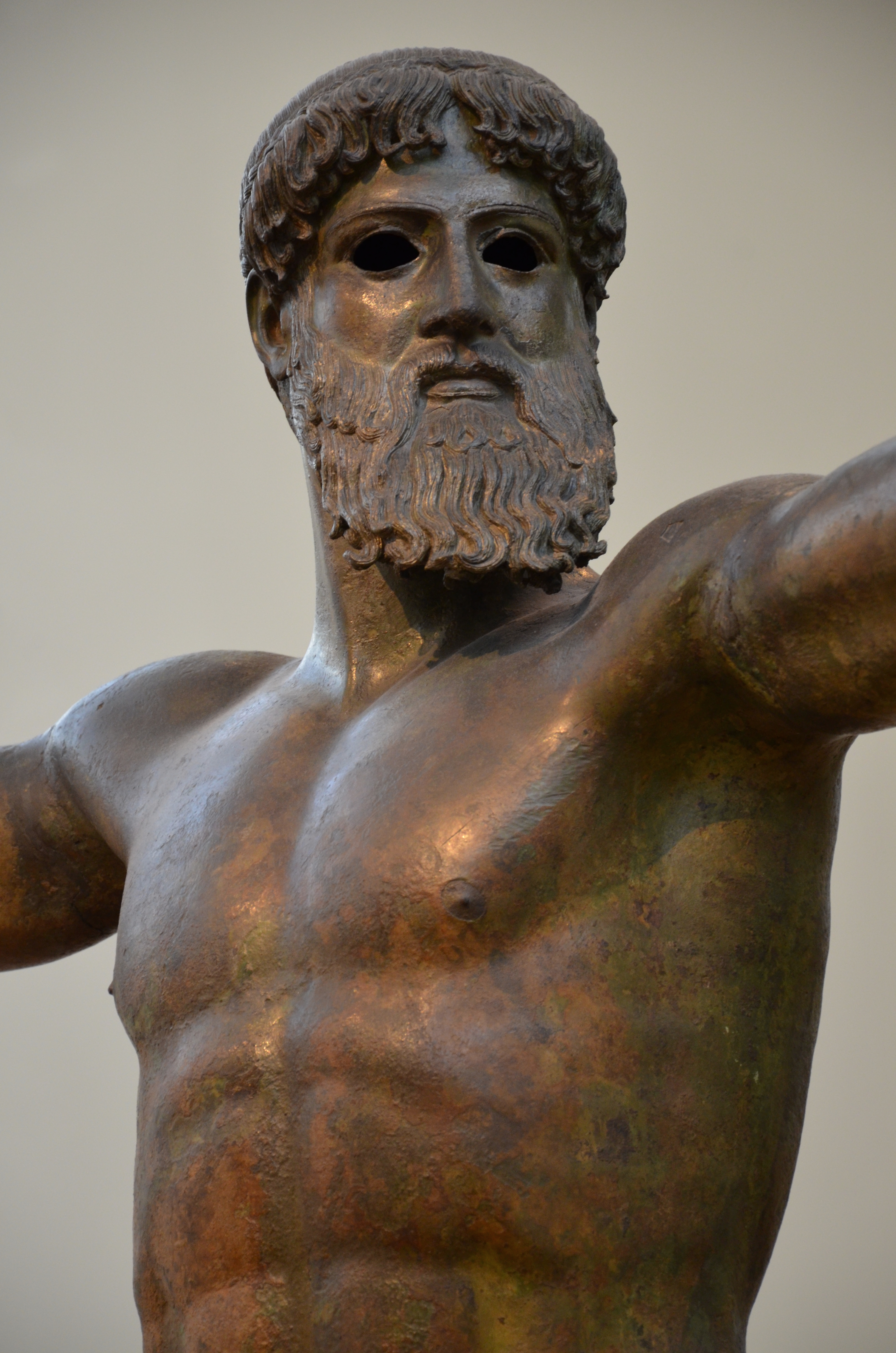 The Artemision Zeus or Poseidon, recovered from the sea off Cape Artemision, in northern Euboea and dating from c. 460 BC. It represents either Zeus or Poseidon and would have held either a thunderbolt, if Zeus, or a trident if Poseidon. Most scholars think it is Zeus.